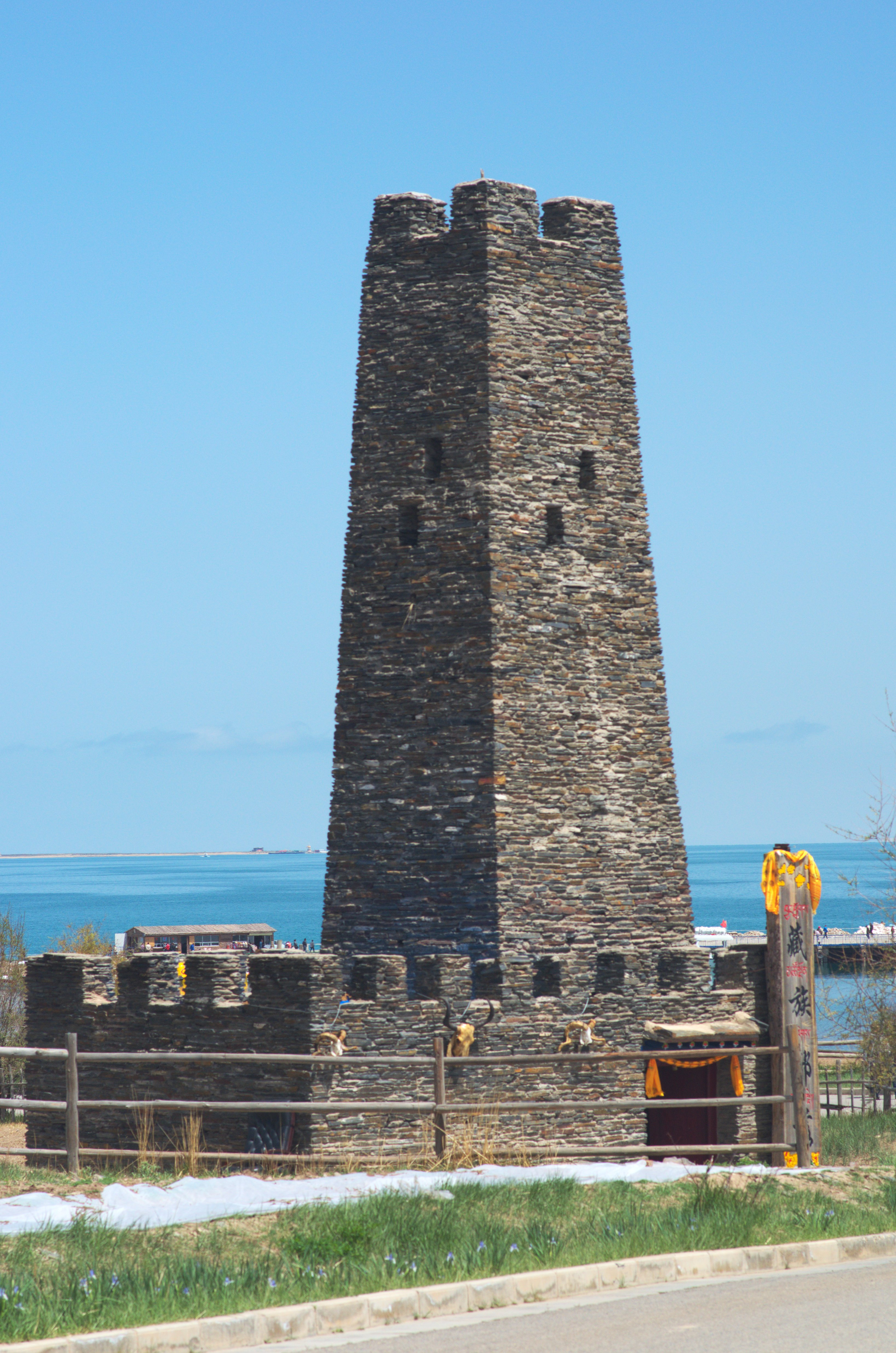 A tibetan Zang style Diaolou at South-East part of Qinghai Lake.